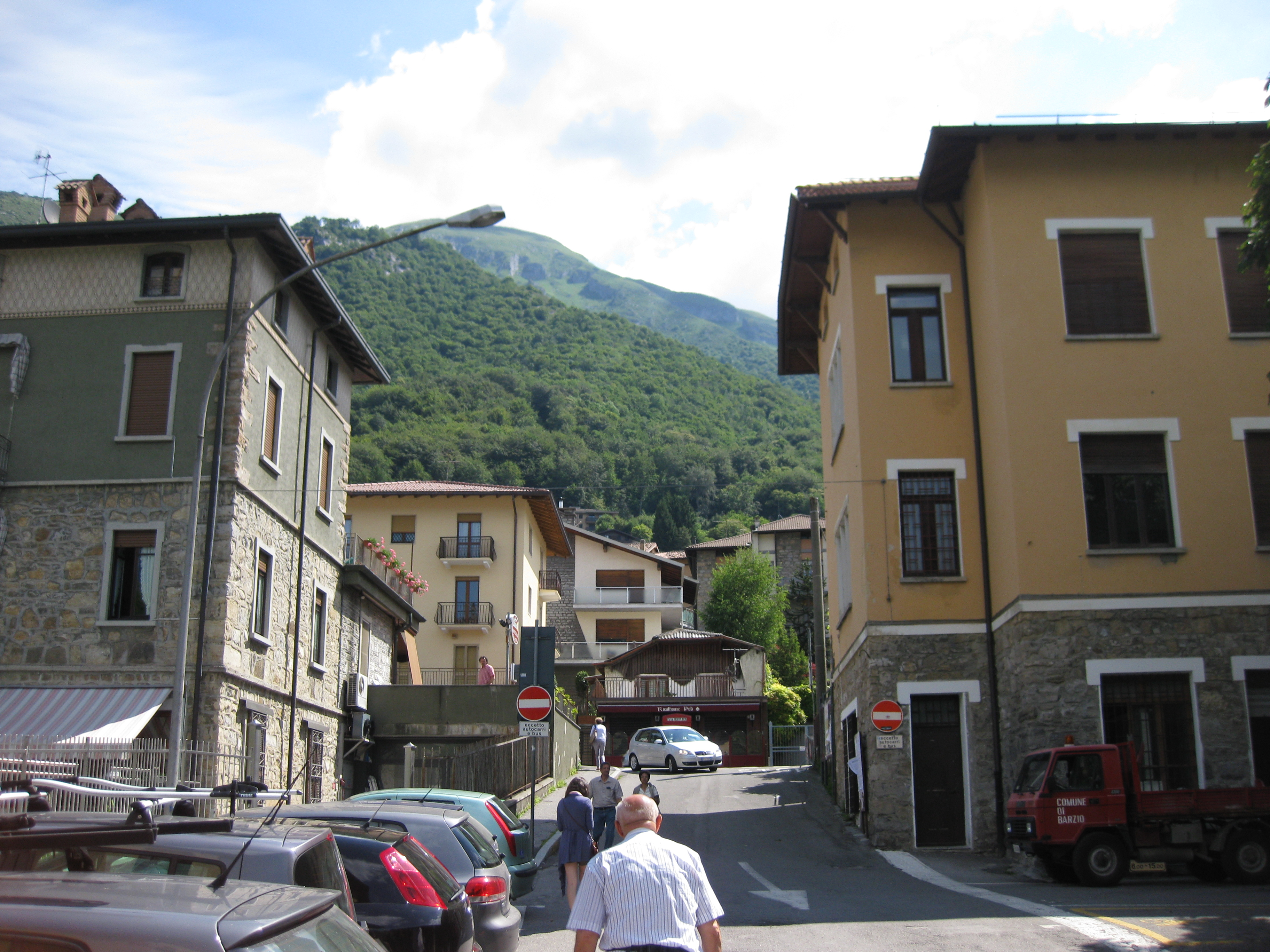 Barzio (ITALY), Località Cesura